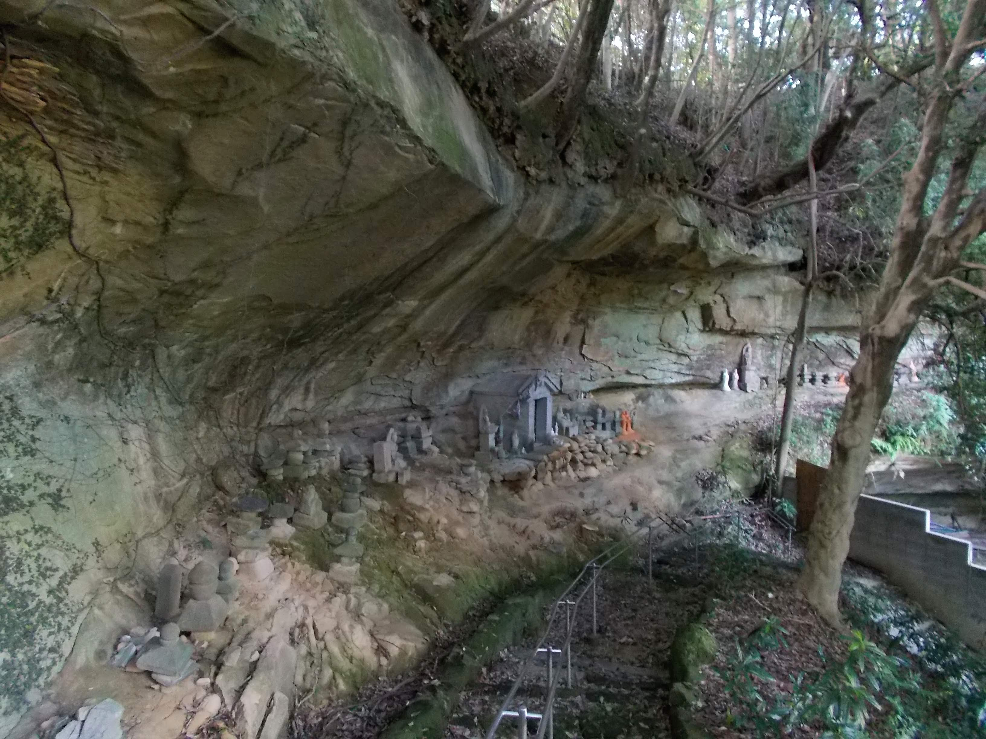 The 500 Rakan cave located in the north of Mount Fukuishi, Sasebo, Nagasaki, Japan